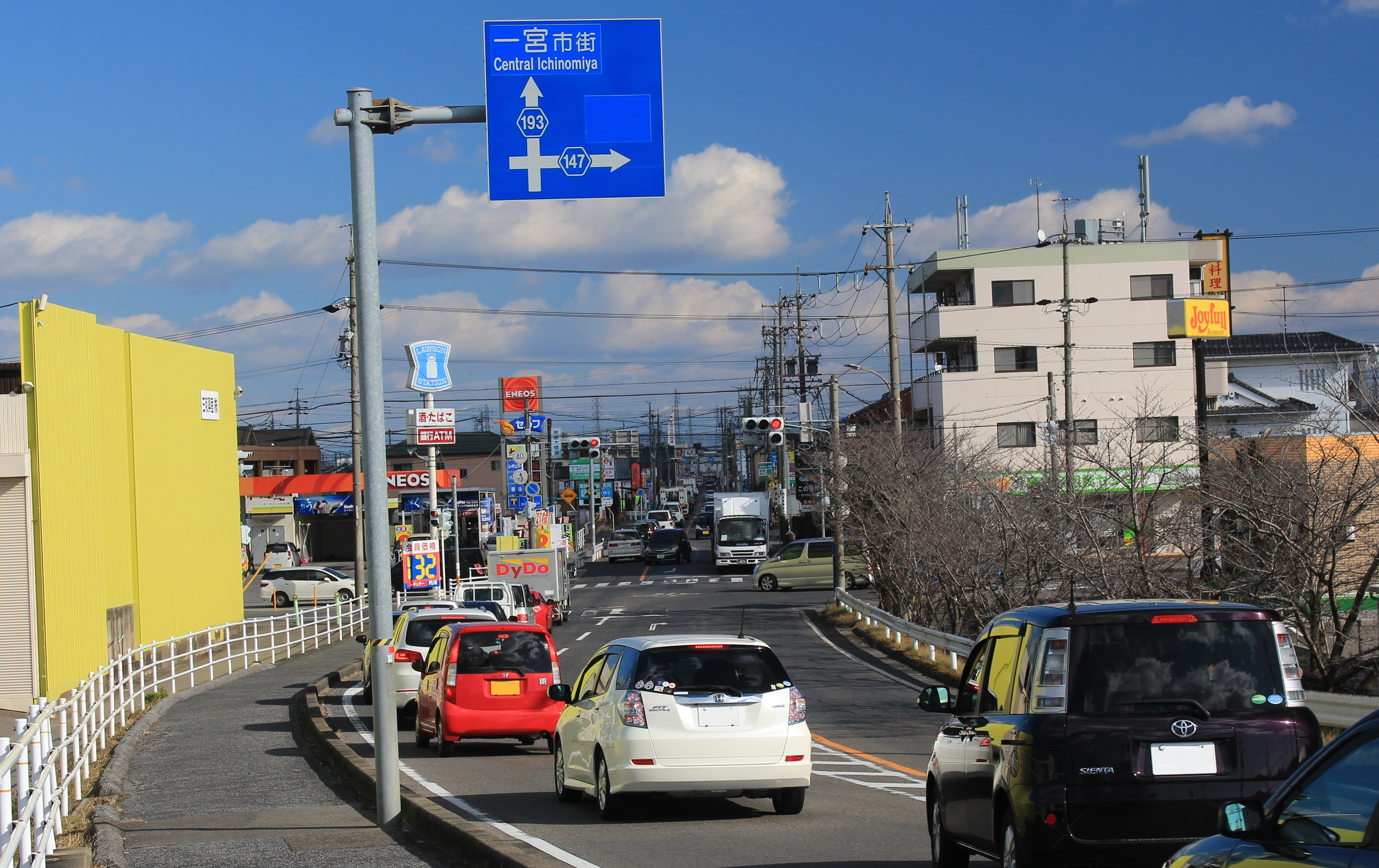 Aichi Prefectural Road Route 193 and Aichi Prefectural Road Route 147 in Tamanoi, Kisogawacho, Ichinomiya, Aichi Prefecture, Japan.